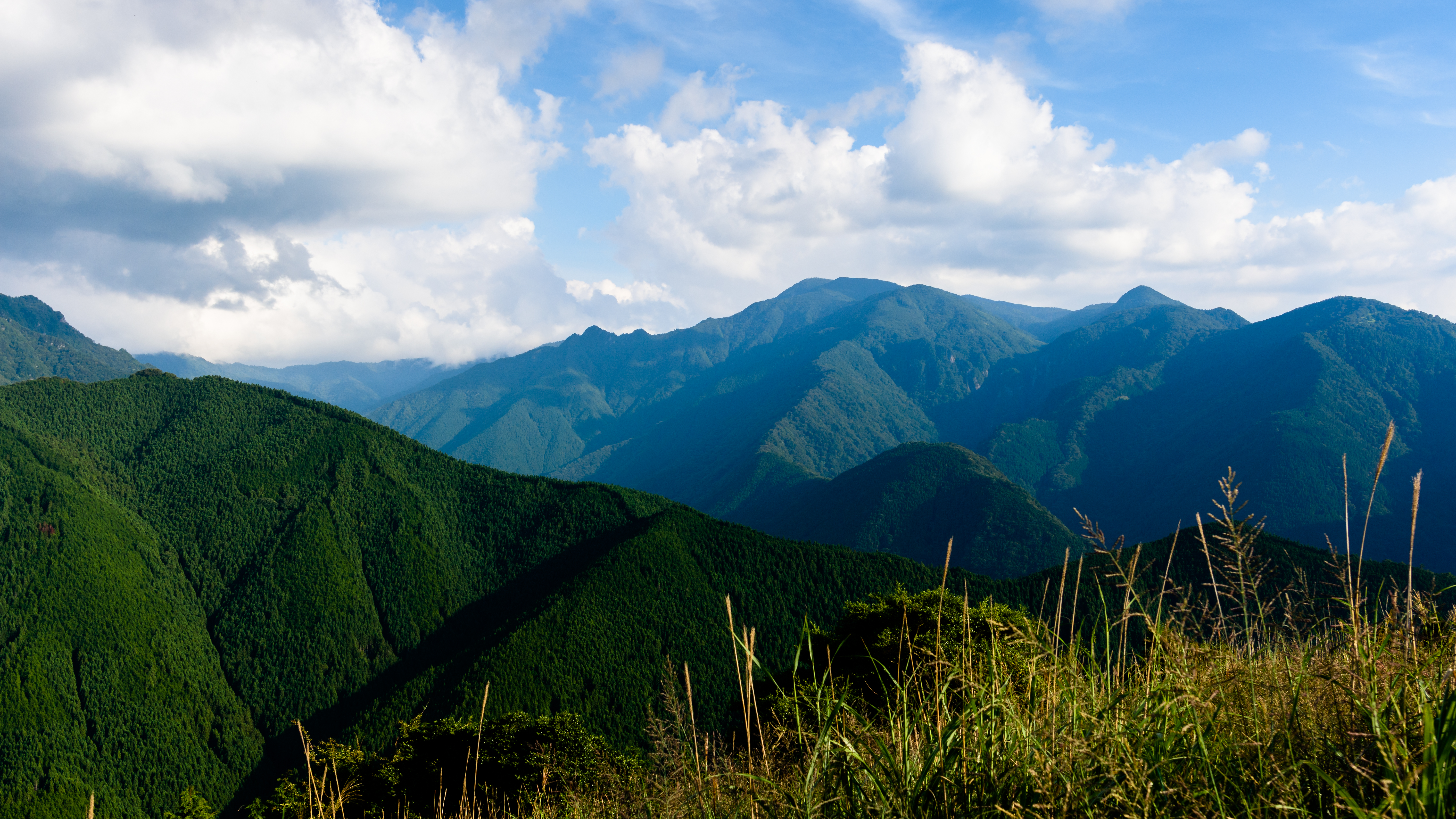 Mount Misen (1,895 metres) and Ōmine Mountains from Mount Kan'onmine in Tenkawa, Nara Prefecture, Japan.